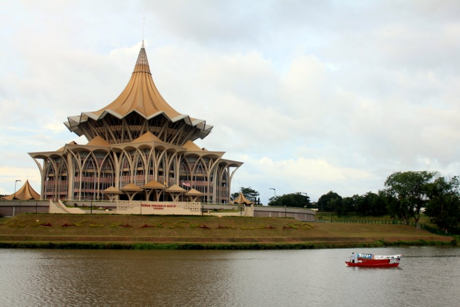 The State Legislative Assembly building of Sarawak.